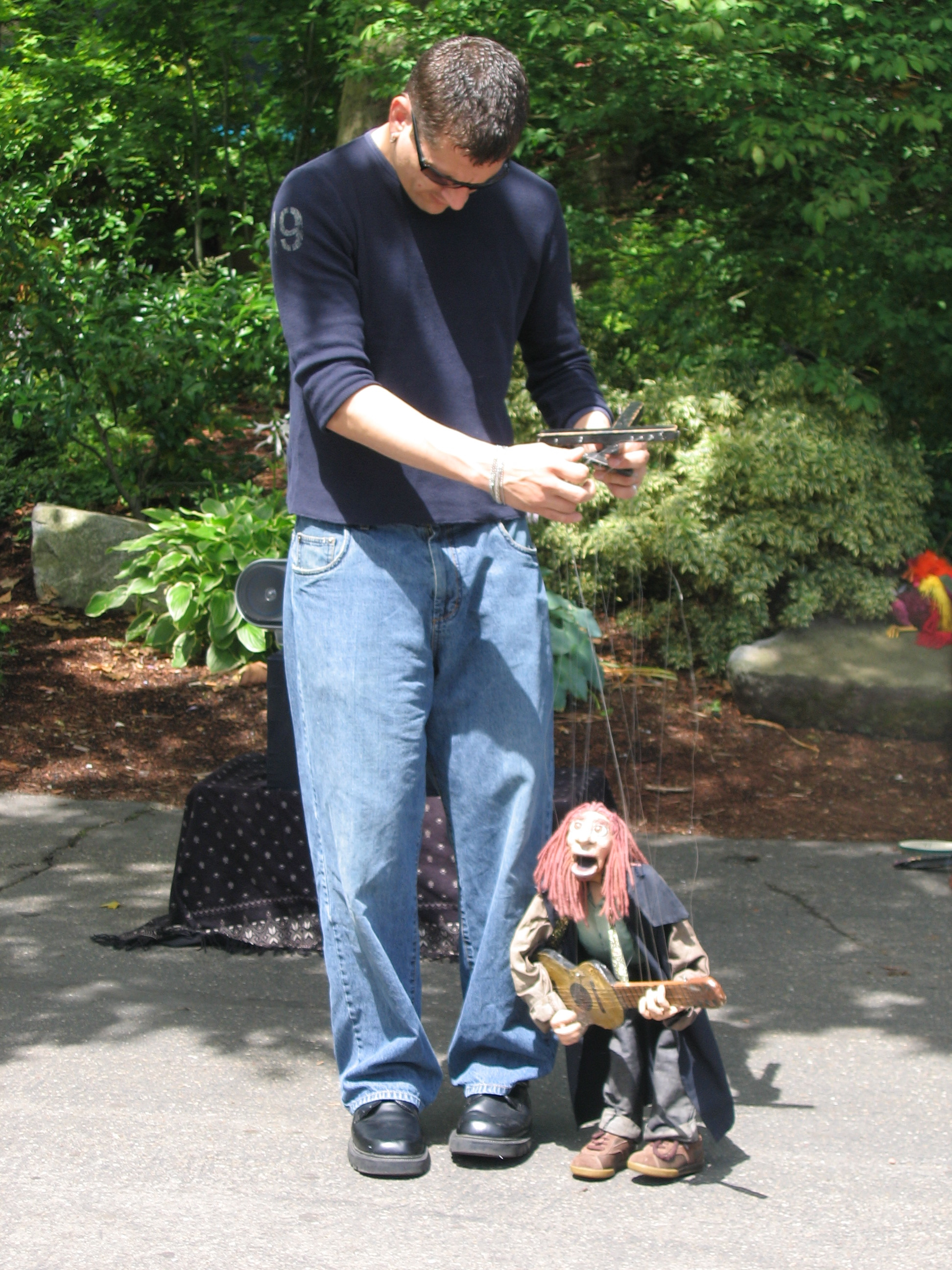 Lane and I visited the Seattle Center, and saw this street performer. He was an amazingly talented puppeteer.